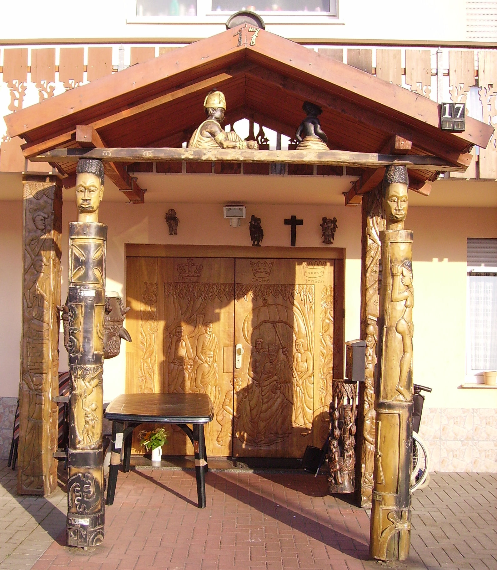 house of Céphas Bansah in Ludwigshafen, Germany